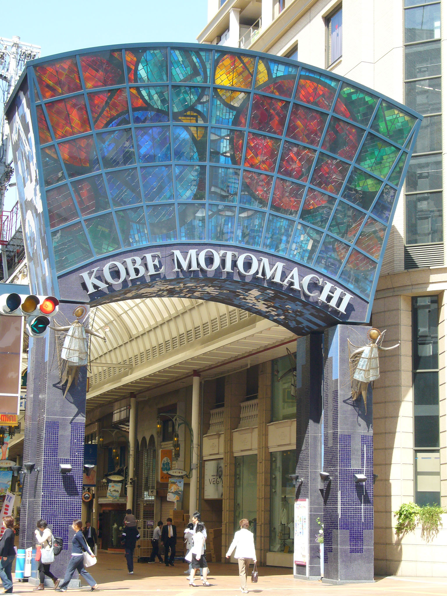 Kobe Mosque in Kobe, Japan